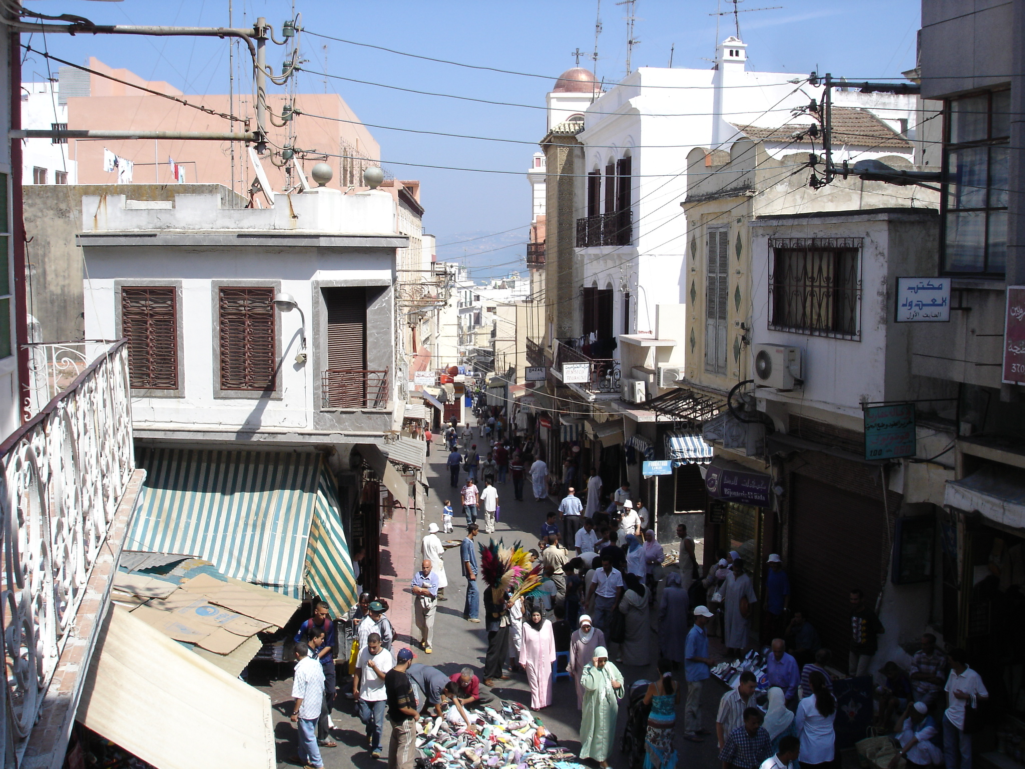 View from the central city part of Tangier, Morocco